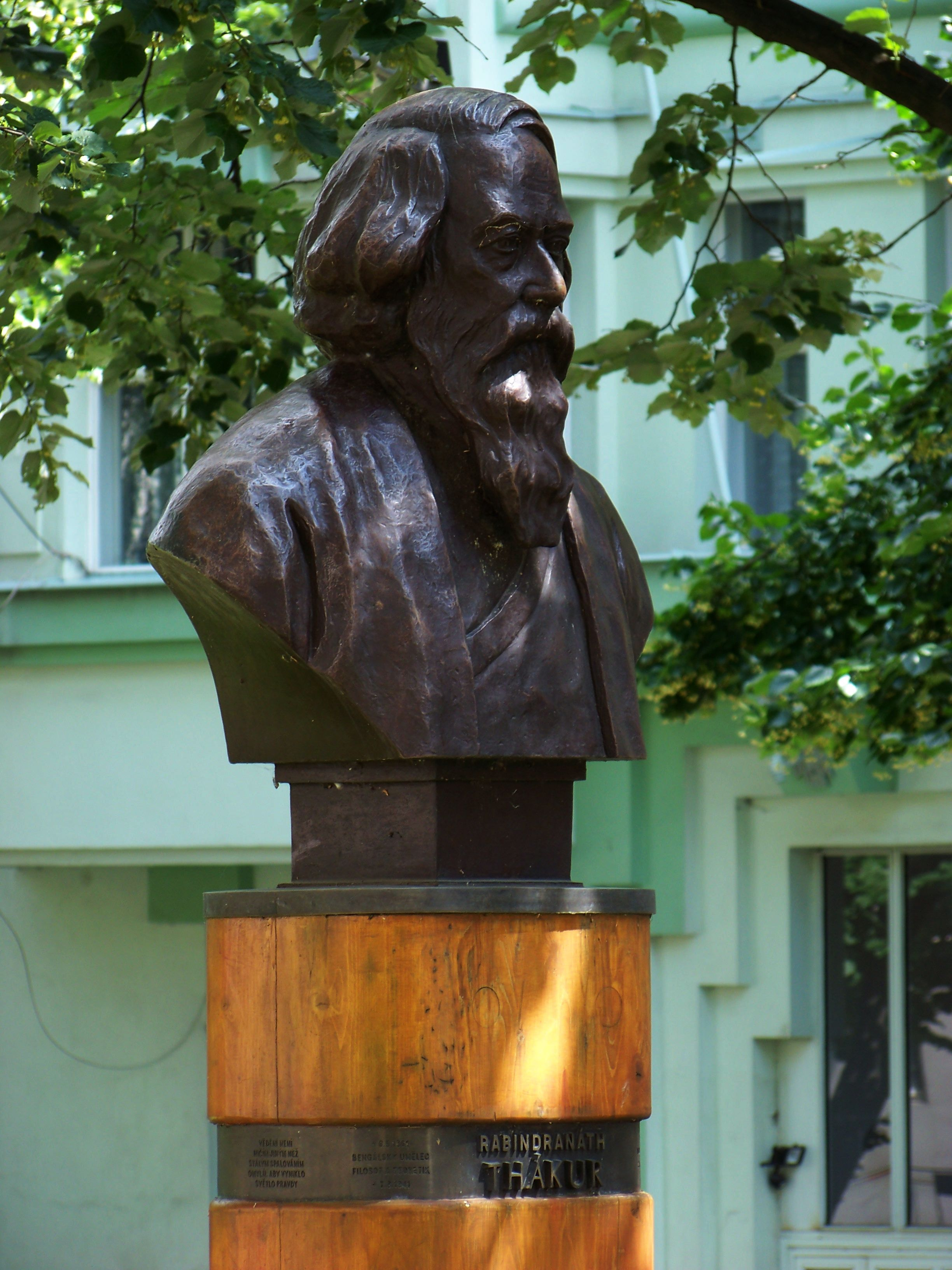 Prague-Dejvice, the Czech Republic. Thákurova street, a bust to Rabindranath Tagore. - OpenStreetMap(Info)